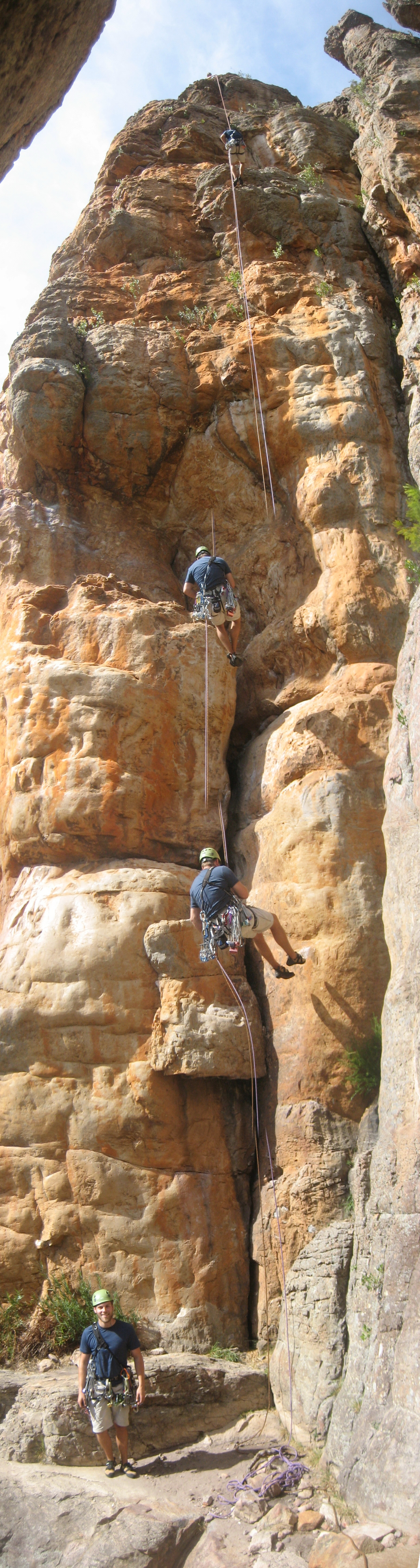 Mike raps off the back side of Muldoon, 13, at Mount Arapiles. Picture is stitched/composed of ~4 pics